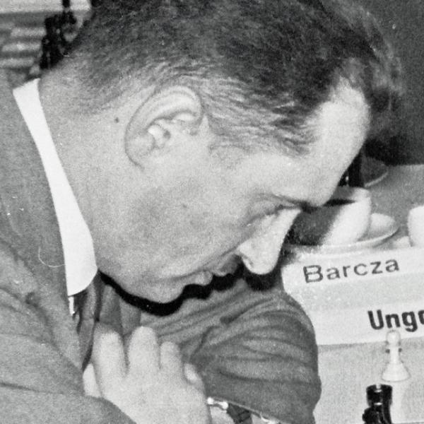 Gedeon Barcza, European Team Championship Oberhausen 1961, Photographer Gerhard Hund.